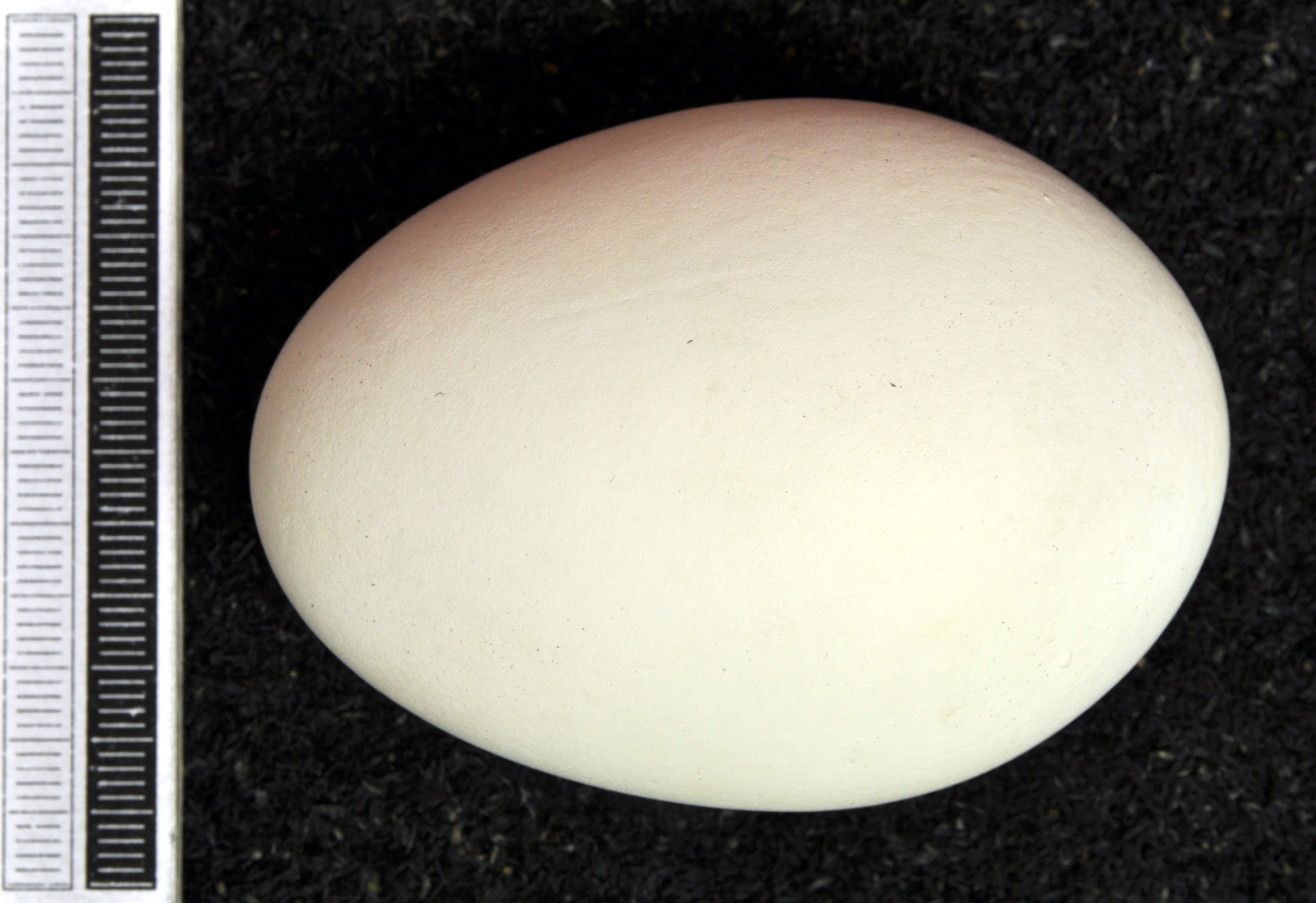 Black stork Ciconia nigra , egg, Coll. Museum Wiesbaden